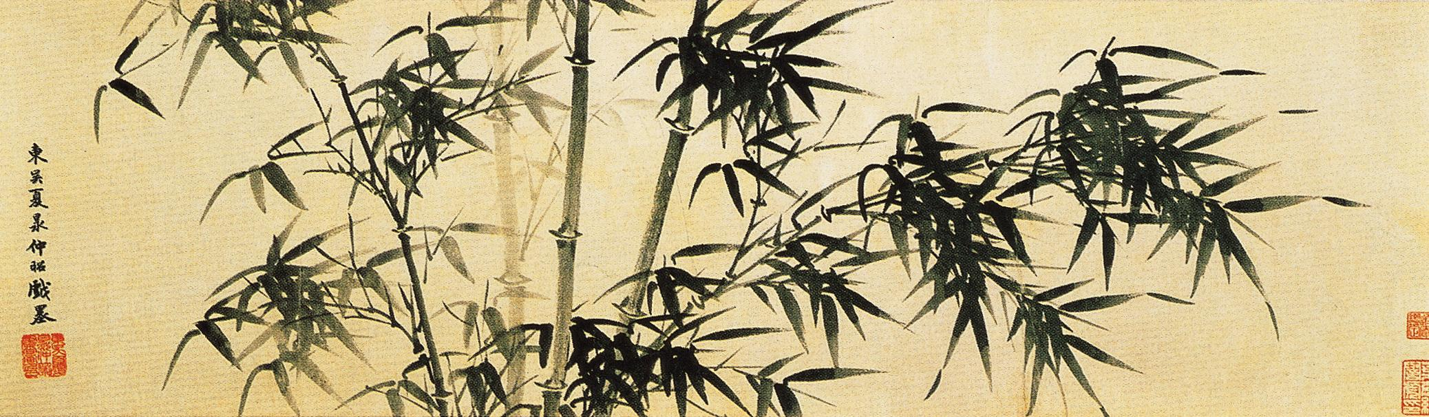 Clear Wind on the Qi River, scroll, ink on paper, 27.5 x 105.5 cm. Located at the Palace Museum. The Qi River is located in Henan Province.